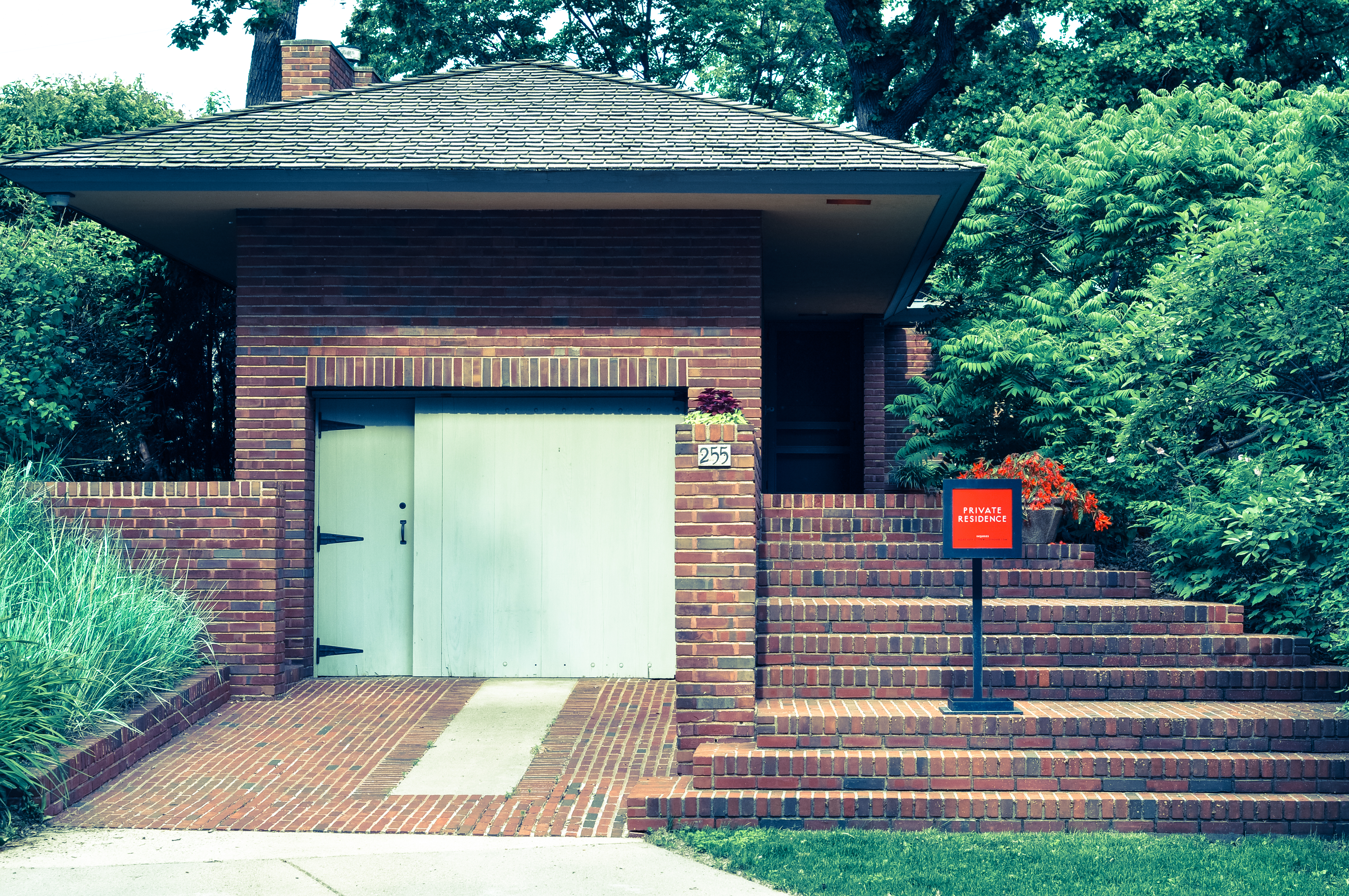 Malcolm Willey House as seen from Bedford St. looking east. Minneapolis, MN.